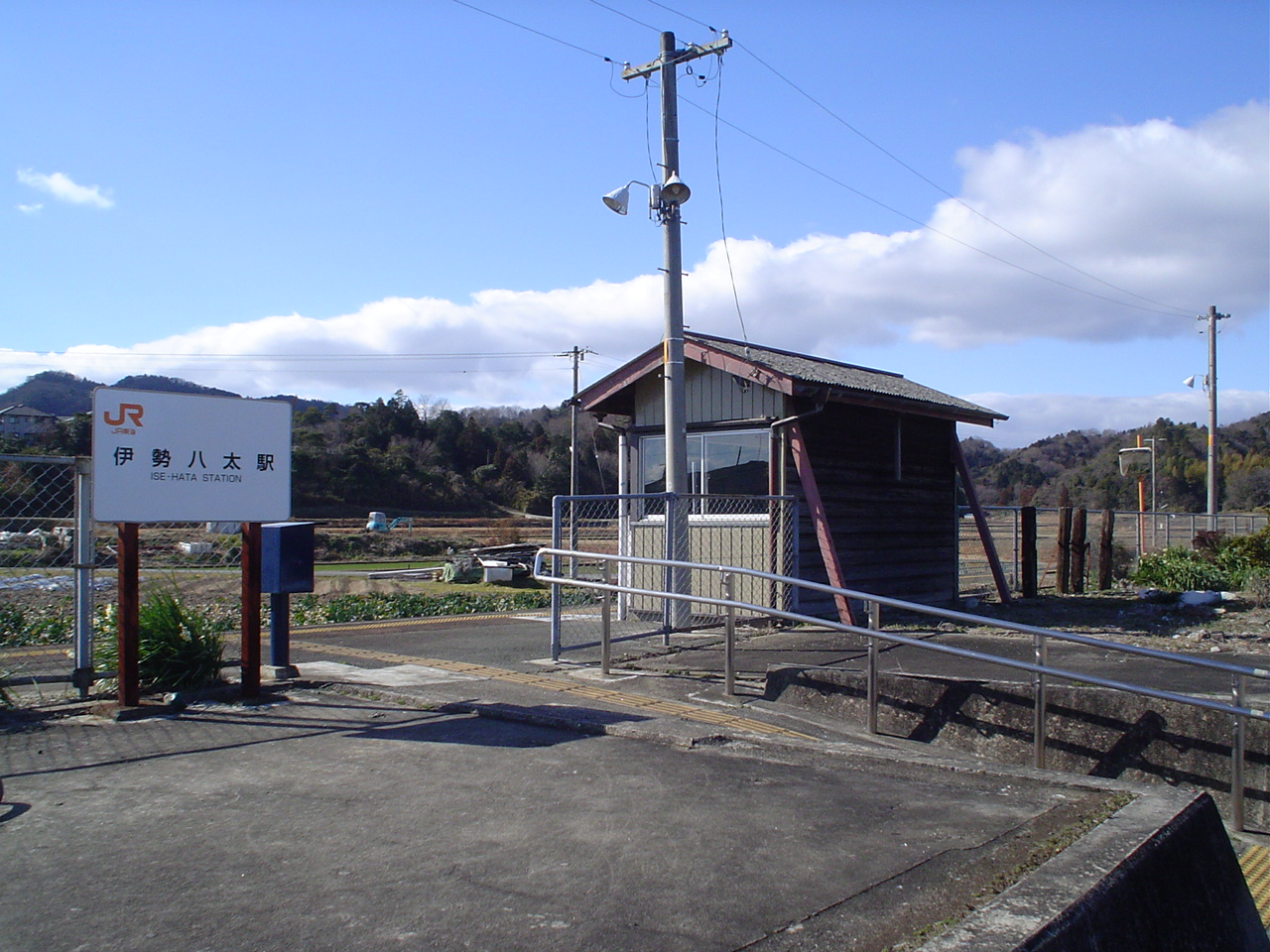 Ise-hata Station in Mie pref, japan